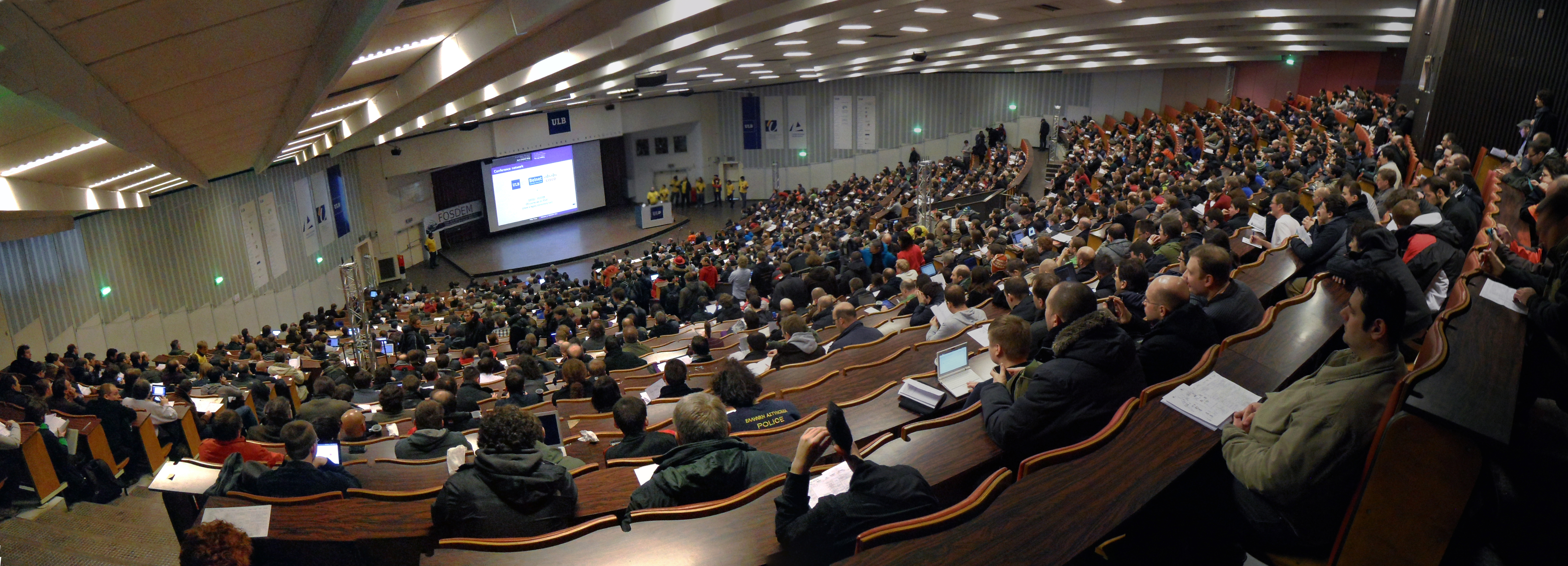 Janson auditorium during the FOSDEM'12 welcome and opening talk